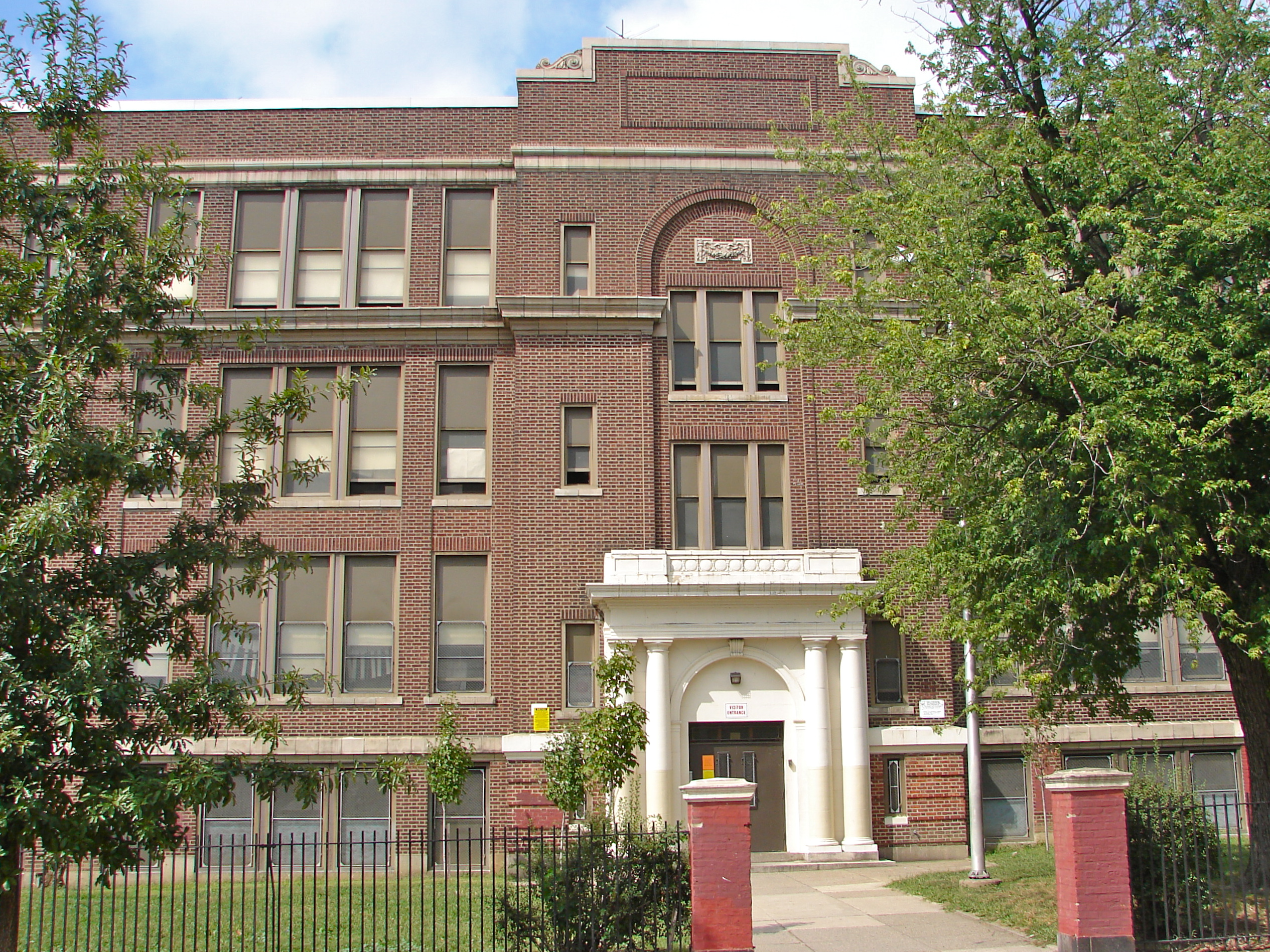 Logan Demonstration School in Philadelphia on the NRHP since November 18, 1988. At 5000 North 17th St. in the Logan neighborhood of North Philly.